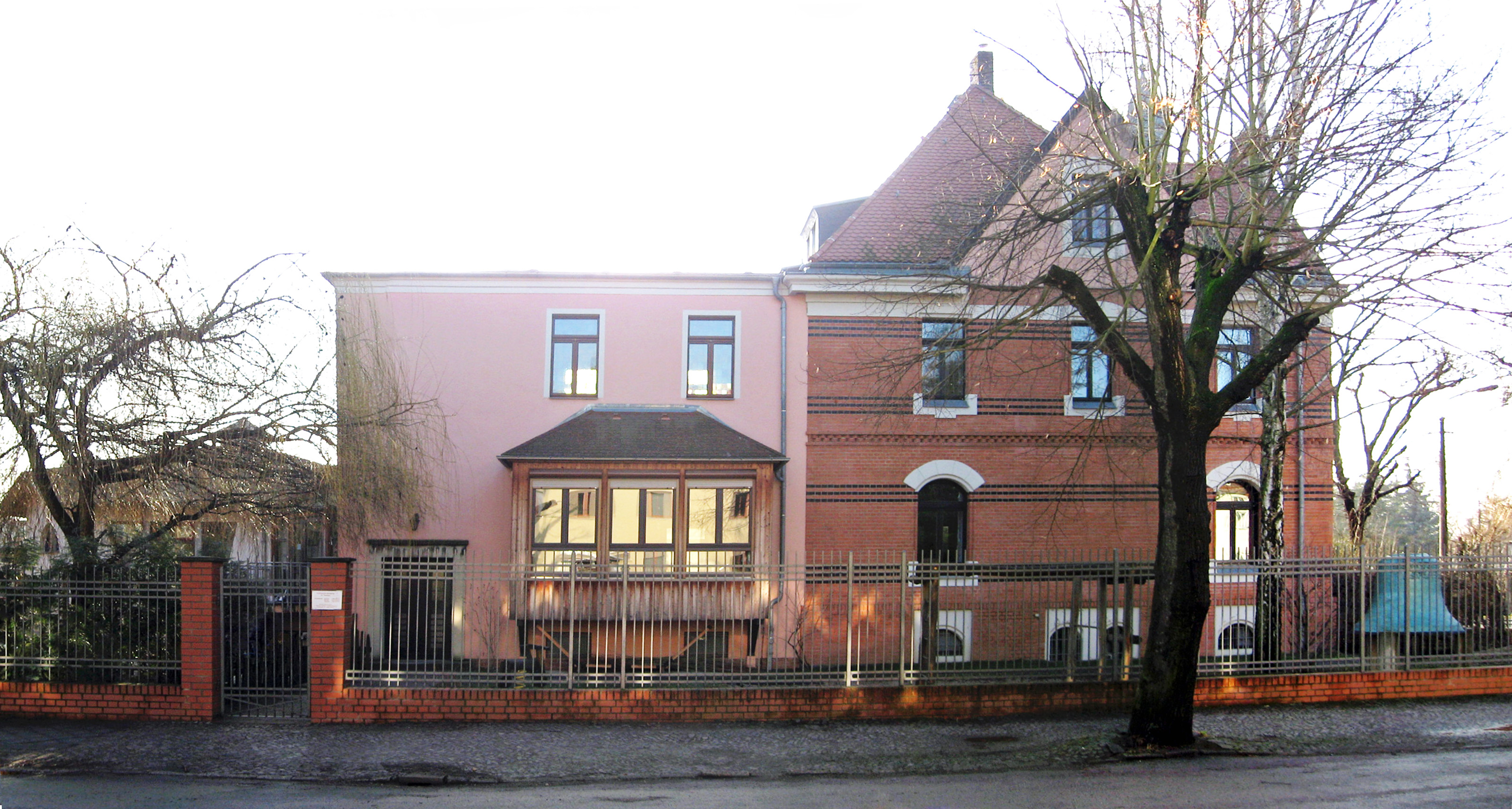 St. Theresa's Church in Leipzig, Am langen Felde 29